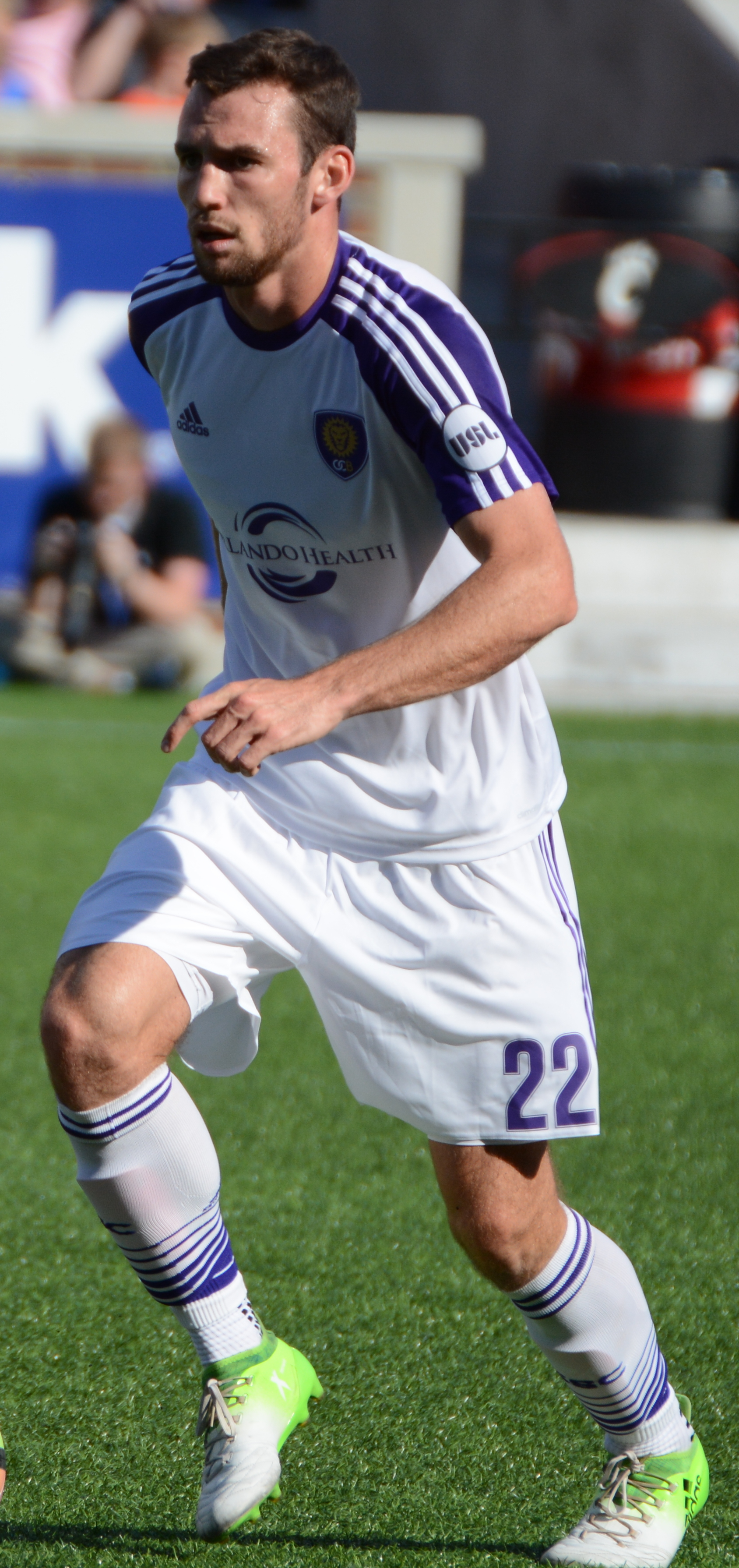 Conor Donovan Taken during a match between FC Cincinnati and Orlando City B at Nippert Stadium in Cincinnati, USA on May 13, 2017.